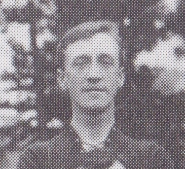 Ted Thorpe lining up before York City's match against Lincoln City reserves at Mille Crux, York on 9 September 1922